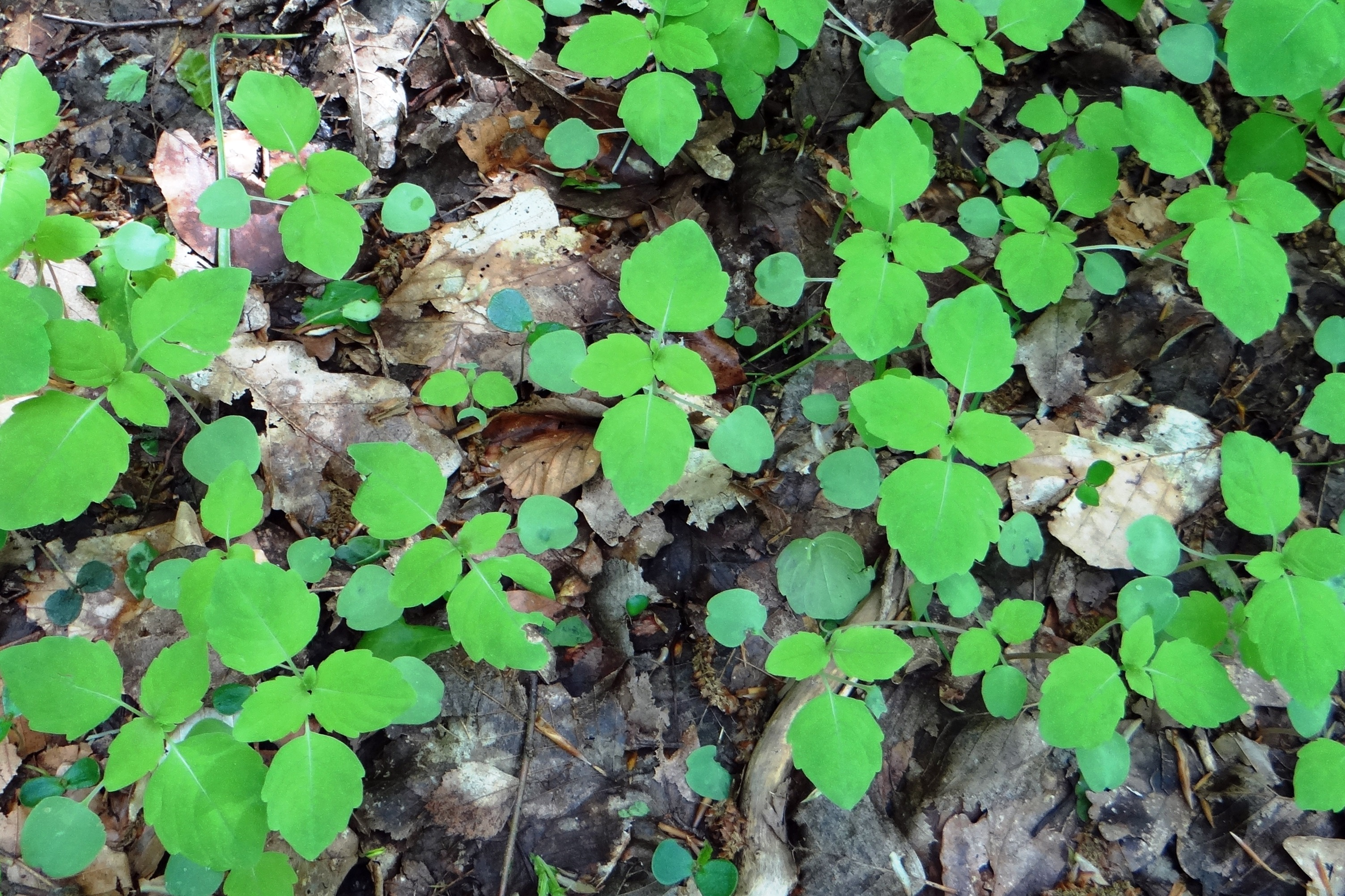 Impatiens noli-tangere, young plants